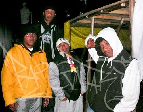 Hip hop has rapidly grown in popularity in Madagascar in the past decade. The local name of hip hop is called "Haintso Haintso", meaning "H. H." (for hip hop). Malagasy hip hop, although largely reflective of Western genre standards, has been moving toward incorporation of more Malagasy musical tradition in its style and instrumentation. Hip-hop spread to Madagascar in about 1985 together with breakdancing. The local rap scene (Rap Gasy) remained underground until the late nineties, although artists as early as 1994 were attracting attention with their politically provocative lyrics. The earliest performers included the MCM Boys (now known as Da Hopp) and 18,3. Mainstream success came in about 1998; popular modern performers include The Specialists, Paradisa, Oratan and many more. On June 21, 2007, UNICEF chose a 15-year-old Malagasy rap star, Name Six as its first ever Junior Goodwill Ambassador for Eastern and Southern Africa. The young rapper's work continues the genre's tradition of social critique and political commentary, focusing largely on the challenges faced by children in underprivileged communities in Madagascar and voicing the views and concerns of the young, who are routinely omitted from political decision-making processes.